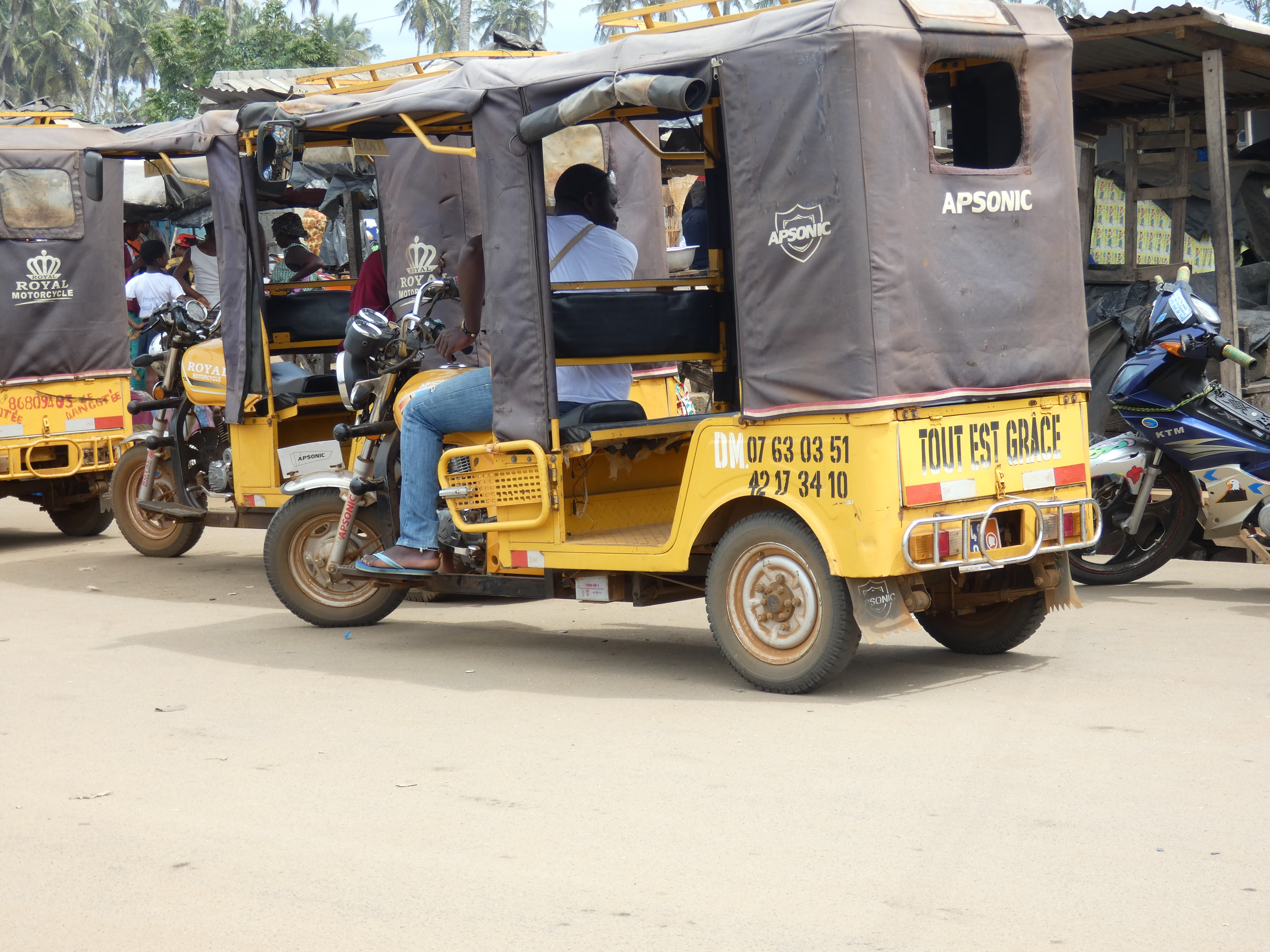 Tricycle servant de taxi à Jacqueville (Côte d'Ivoire) This is an image with the theme "Africa on the Move or Transport" from: Ivory Coast